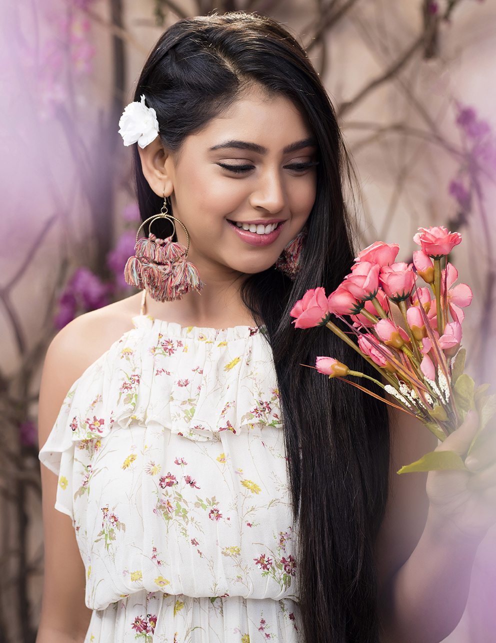 Sajid Shahid clicked actress Niti Taylor in Mumbai.